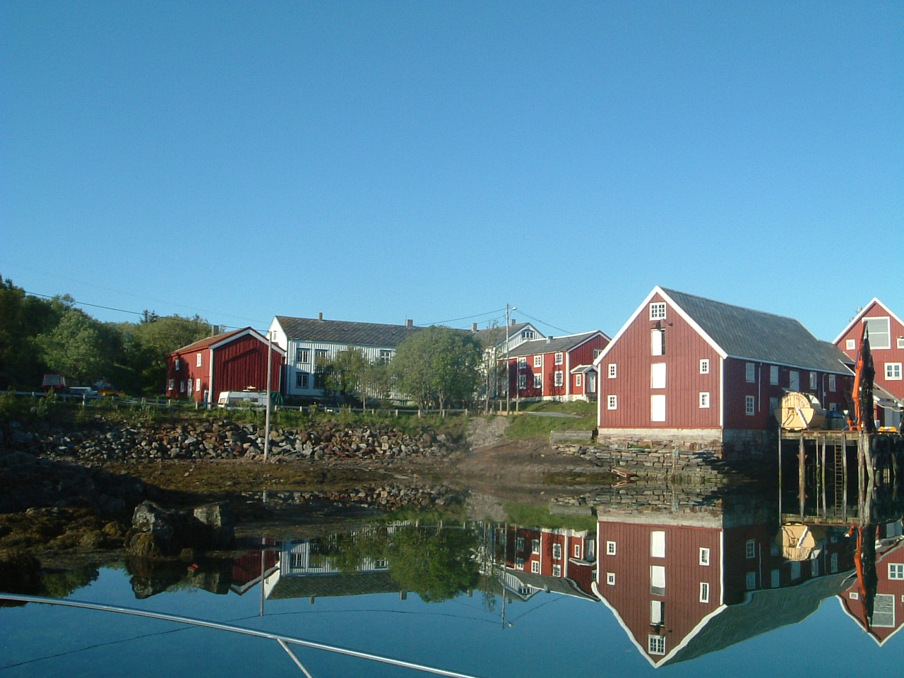 Selsøyvik, in earlier days a stoppover for fishing boats from Trøndelag going to Lofoten. The closest building to the right, is new, erected 1983–1985, designed by the Norwegian architect firm BOARCH arkitekter a.s.